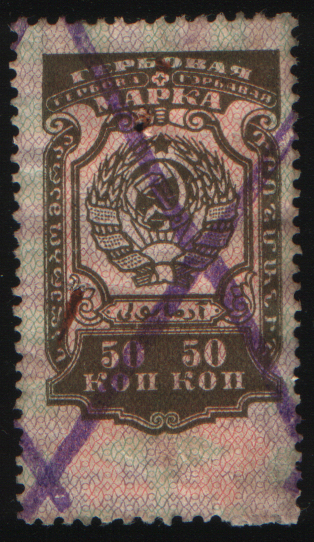 Revenue stamp of USSR, 1926, 50k.